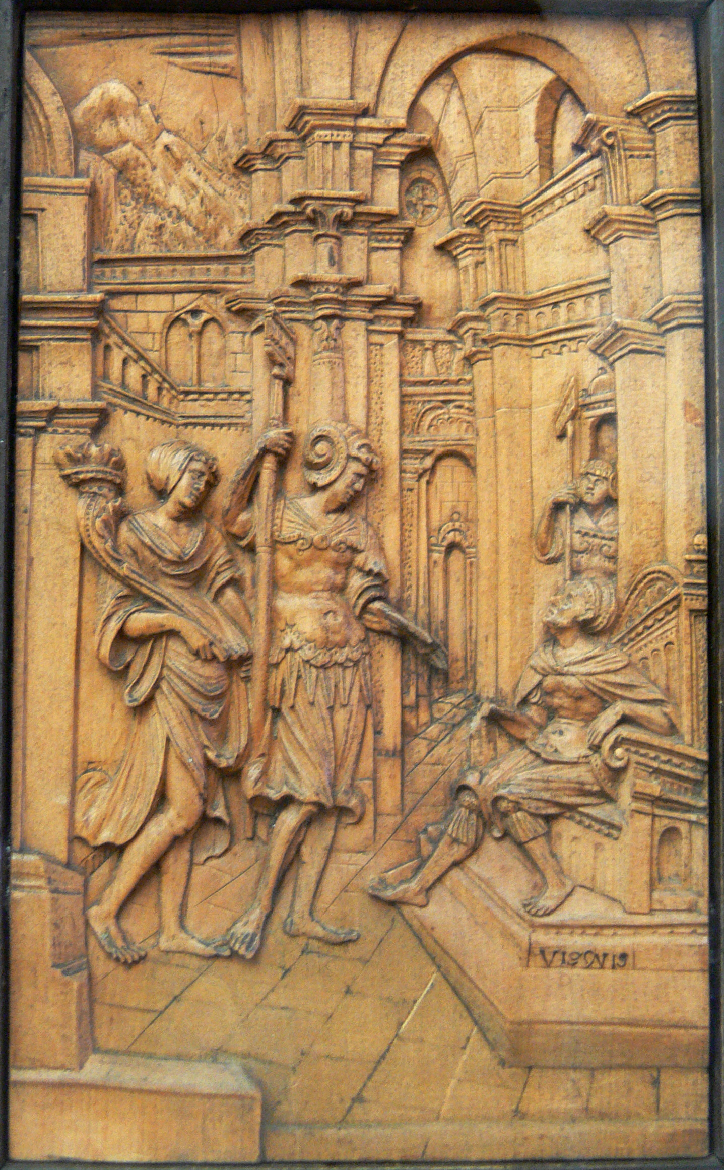 Sebastian Loscher: Symbolic representation of the powerful merchant Jacob Fugger, Augsburg c. 1525, limewood. Kaiser-Friedrich-Museums-Verein (Inv. M 98, acquired in 1908), on permanent loan to the Skulpturensammlung, on display at Bode-Museum Berlin.